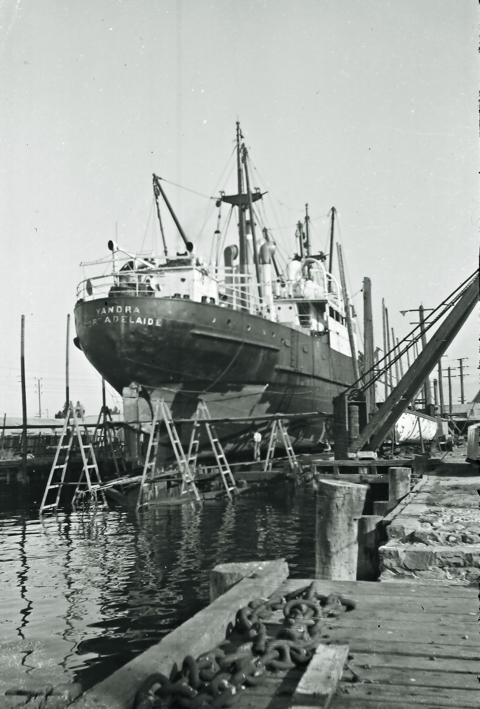 All Photos were taken by Capt. Geoff Rickards -Uploaded by the correct user Scottcoler